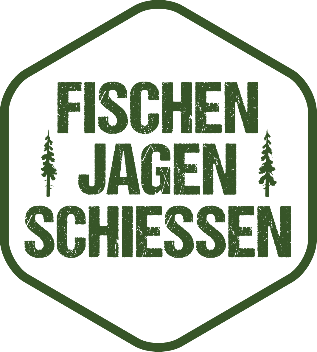 Logo of «FISCHEN JAGEN SCHIESSEN»